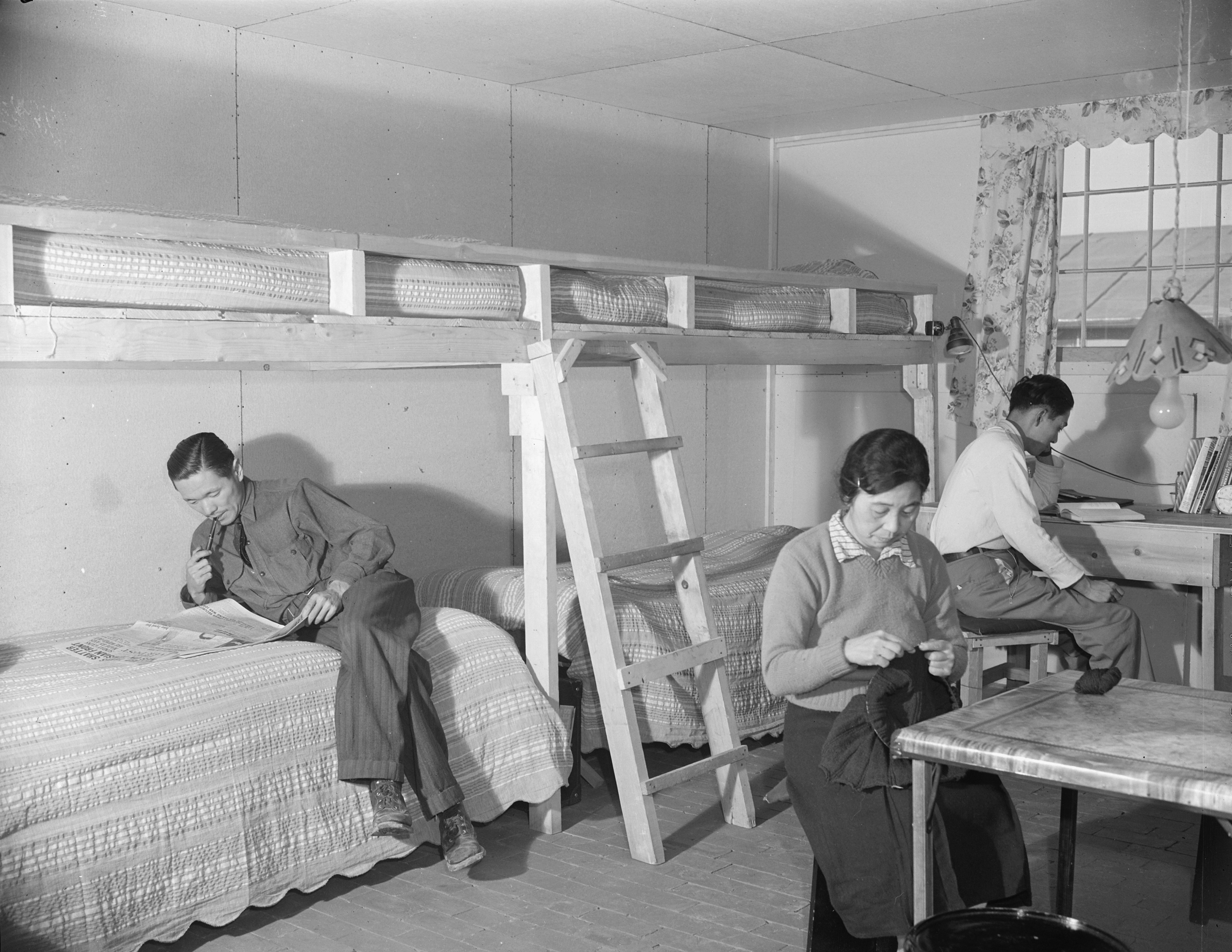 Scope and content: The full caption for this photograph reads: Granada Relocation Center, Amache, Colorado. The Ninomiya family in their barracks room at the Amache Center. The mother's handiwork in preparing drapes, fashioning furniture out of scrap material, plus the boys' ingenuity in preparing double deck bunks have made this bare brick floored barracks room a fairly comfortable duration home. Tosh Ninomiya, left, is charged with the responsibility of documenting the history of the Amache Center.